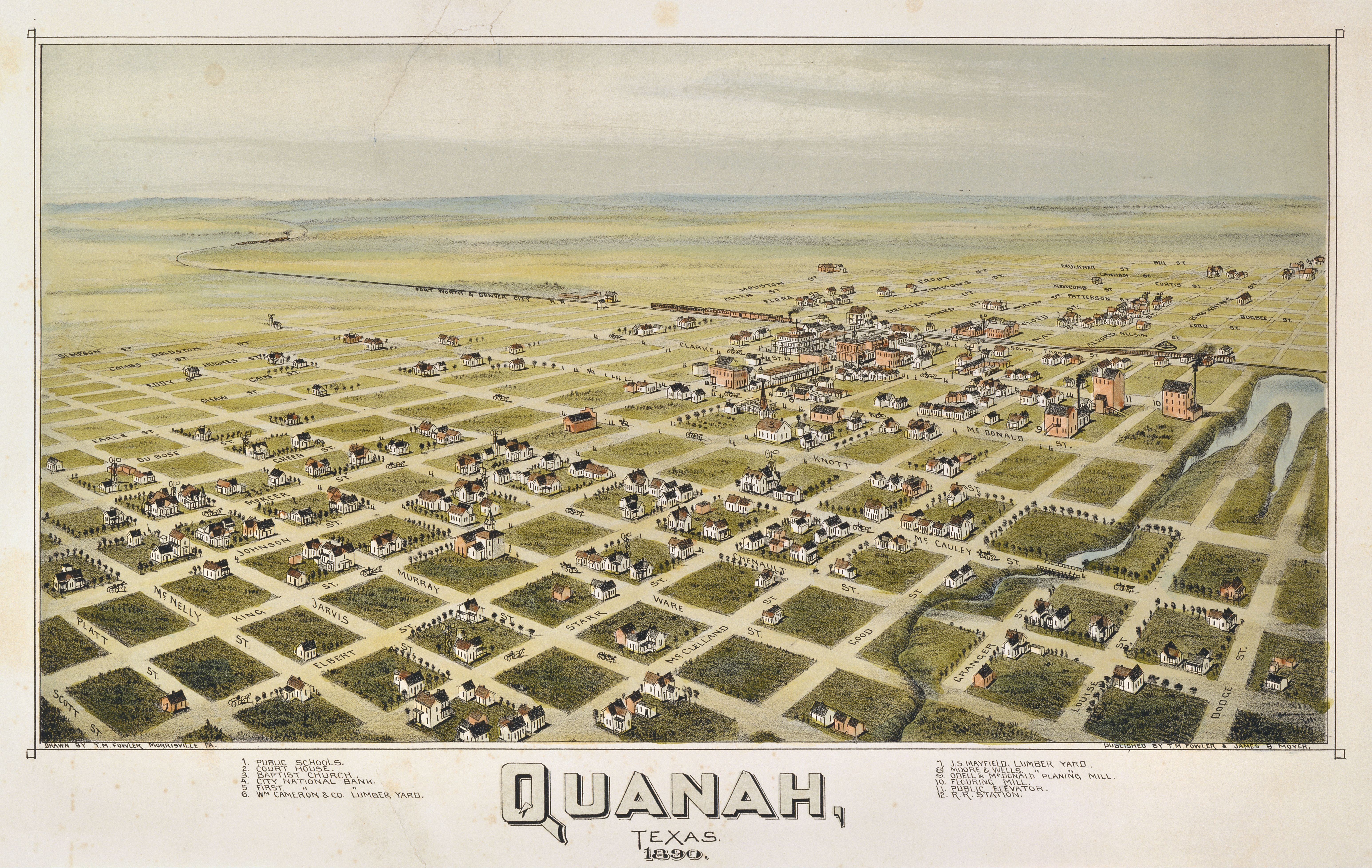 Quanah, Texas in 1890. Quanah, Texas. 1890, 1890. Graphite and ink wash on paper, 20 x 32.6 in. Amon Carter Museum, Fort Worth.